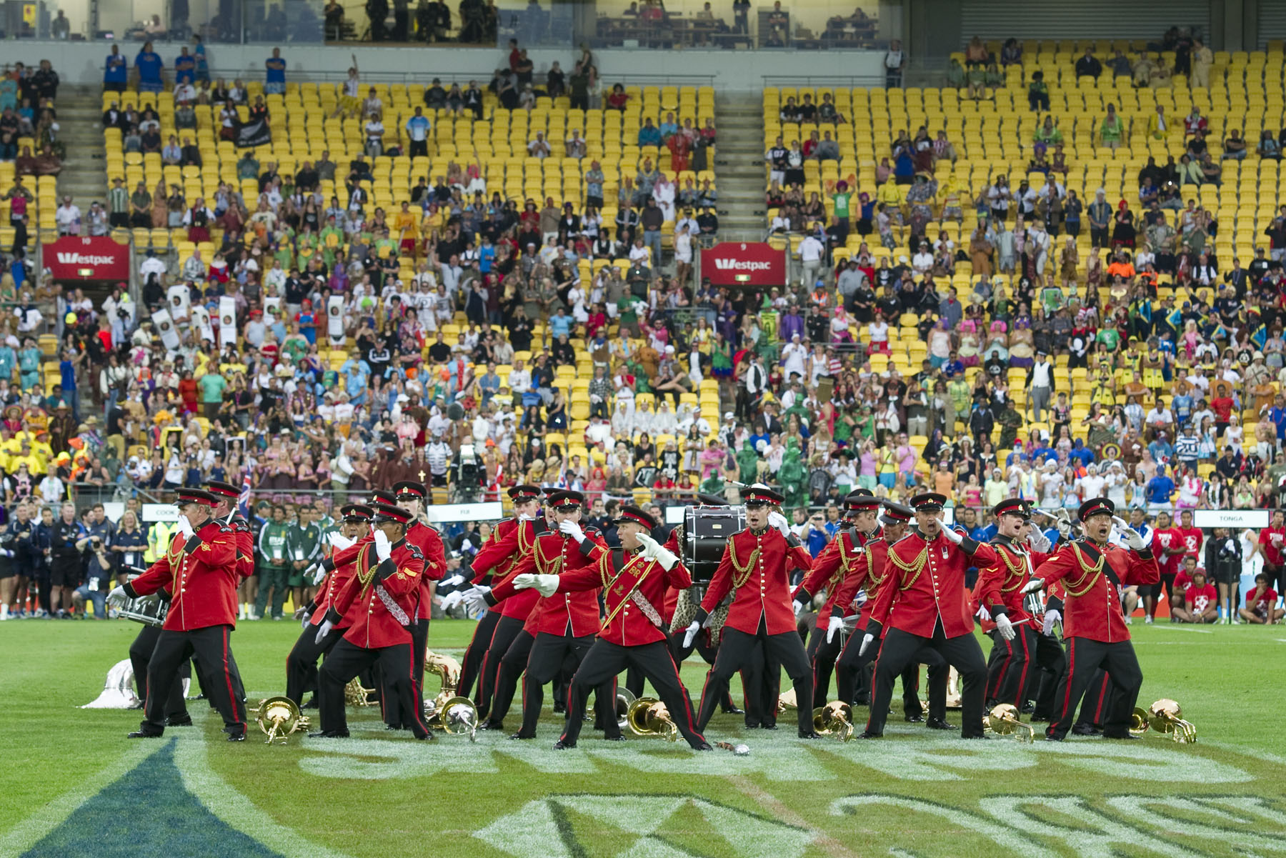 The NZ Army Band performs at the 2012 Hertz Sevens Tournament in Wellington 20120207_WN_S1015650_0016.jpg